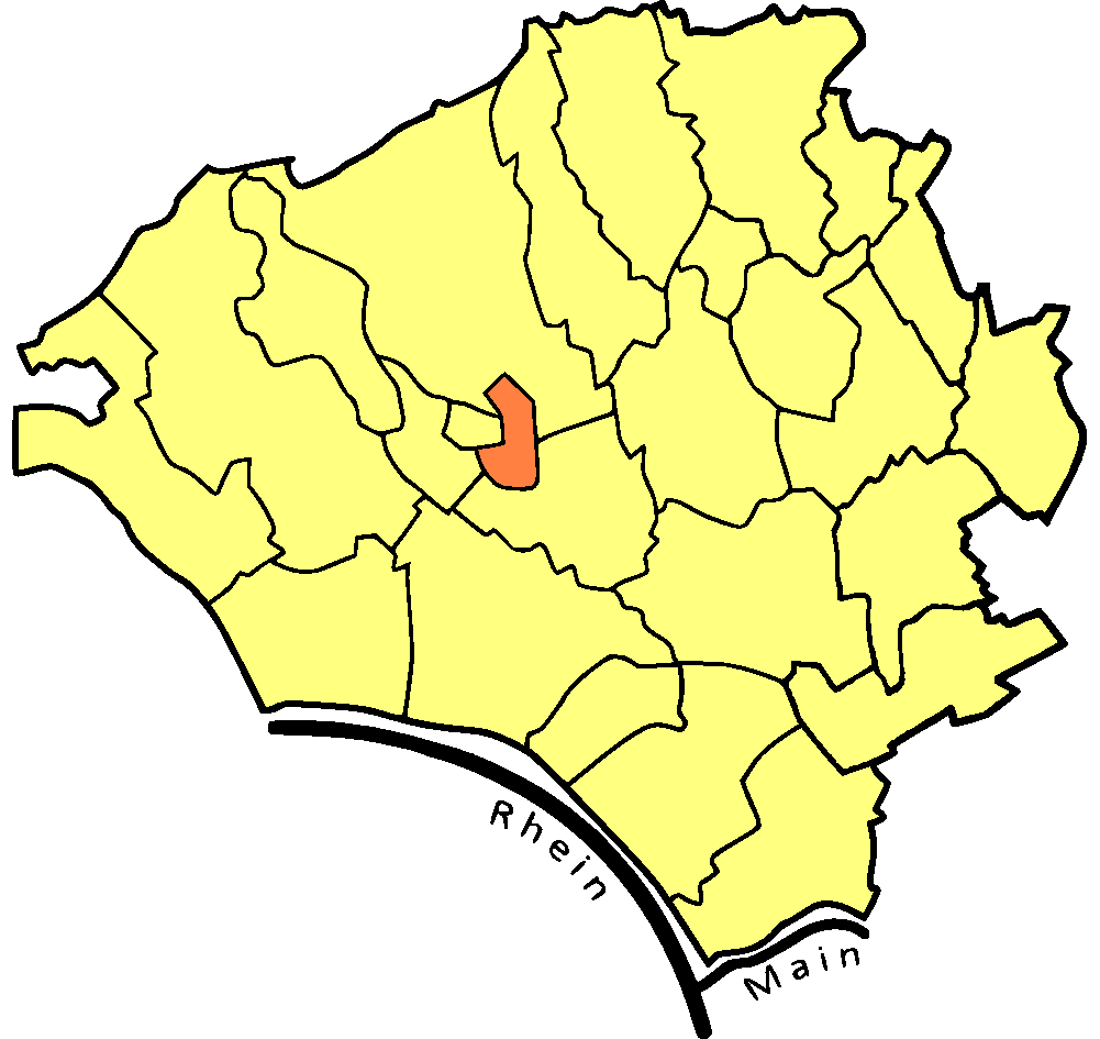 Map of Wiesbaden showing the location of Mitte